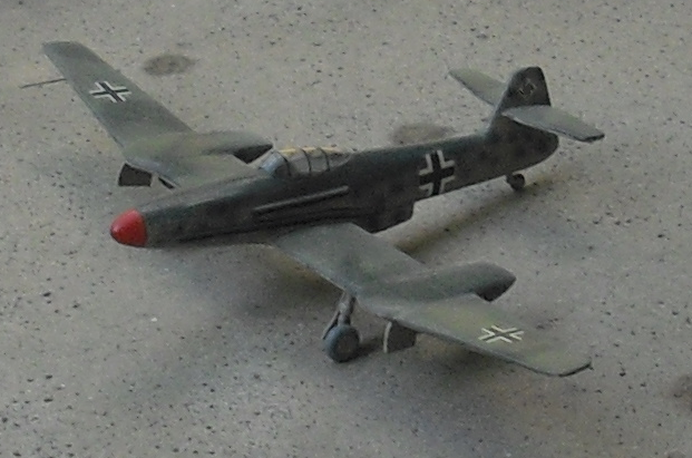 Model photo Blohm & Voss BV 155 (Messerschmitt Me 155)